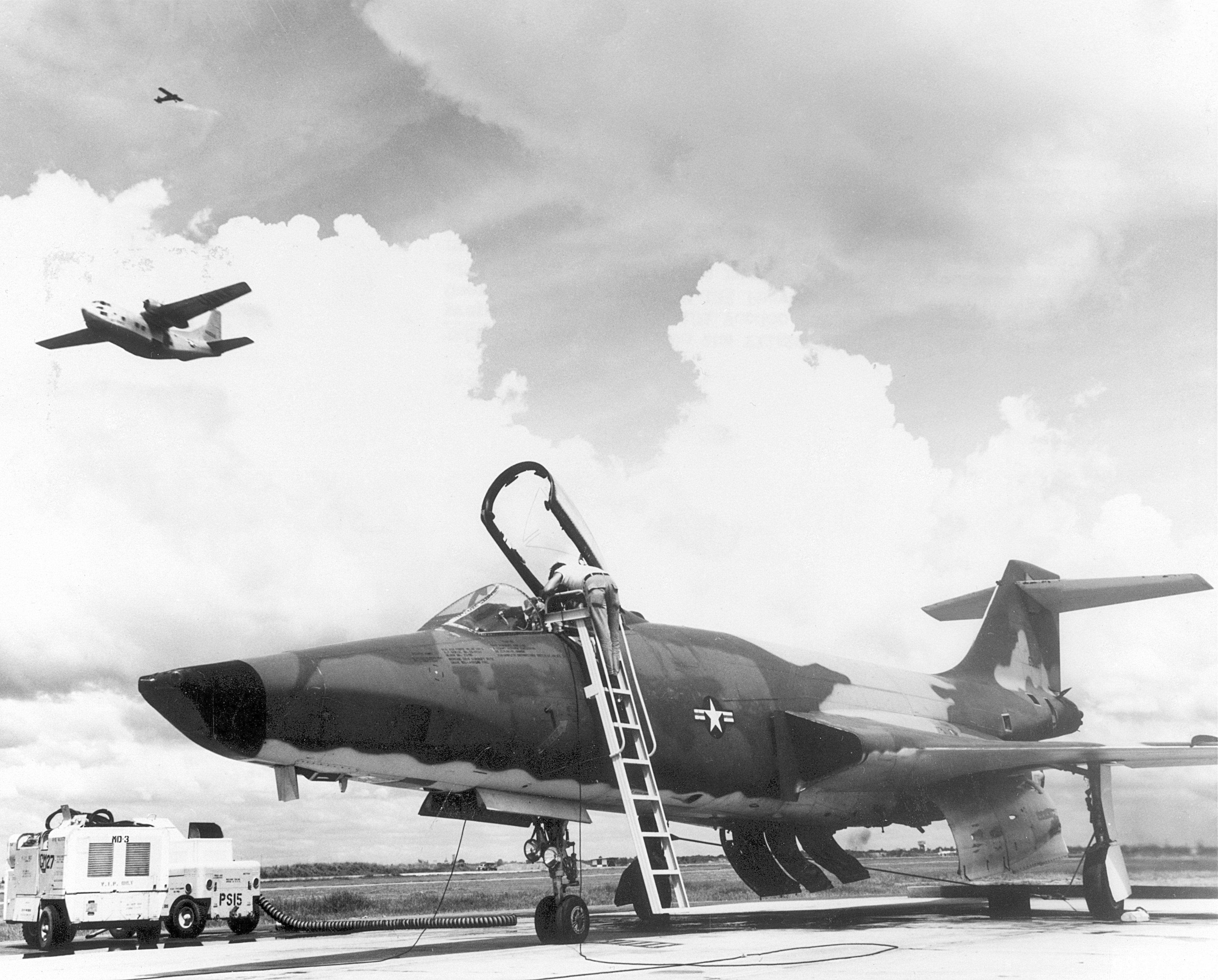 U.S. Air Force technicians prepare a McDonald RF-101 Voodoo 1960's -- On the flight line, U.S. Air Force technicians prepare a McDonald RF-101 Voodoo for a photo reconnaissance mission. Overhead, a Fairchild C-123 Provider takes off on another assault airlift sortie, providing an air bridge to an outpost in South Vietnam. High above, a Cessna O-1E "Bird Dog" returns after pointing out Viet Cong targets to pilots of strike aircraft